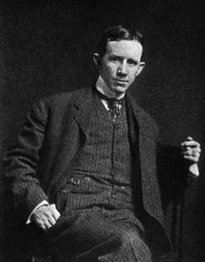 Photographic image of American cartoonist John T. McCutcheon (1870-1949). From The Critic, June 1902 (vol. XL, no. 6), page 493.